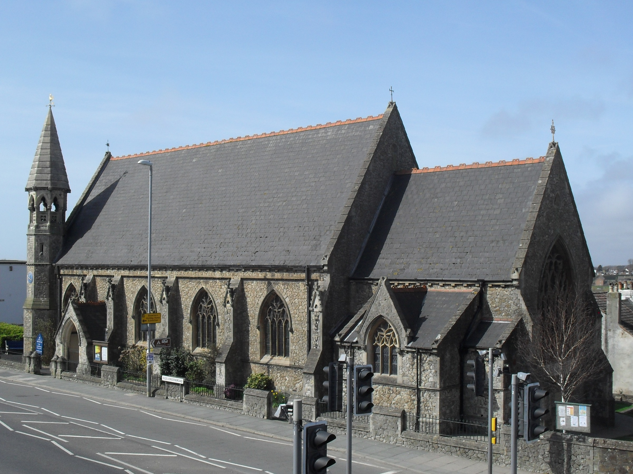 Christ Church, Old London Road, Ore, Hastings, East Sussex, England. Built in 1859 by A.D. Gough in the Decorated Gothic style. Listed at Grade II by English Heritage (IoE Code 294029) (Regraded from superseded Grade C)